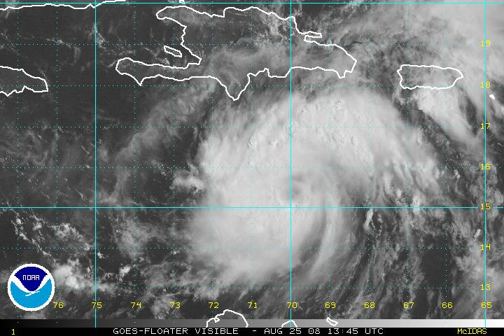 Tropical Depression 7 at 1345 UTC, August 25, 2008